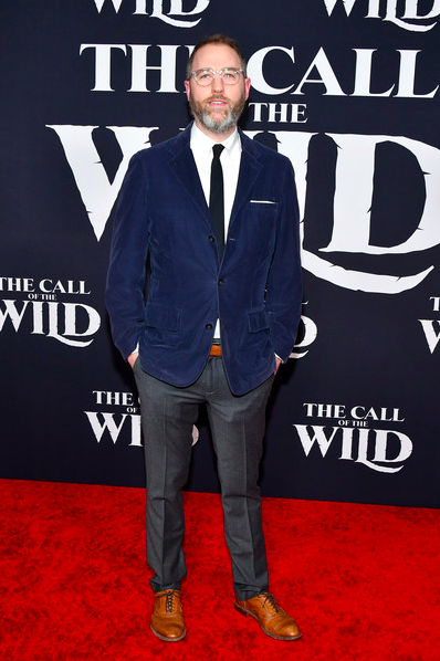 David Heinz attends the Premiere of 20th Century Studios' "The Call of the Wild" at El Capitan Theatre on February 13, 2020 in Los Angeles, California.